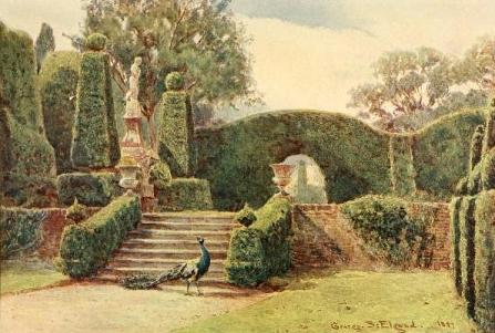 The Terrace, Brockenhurst House (now demolished)